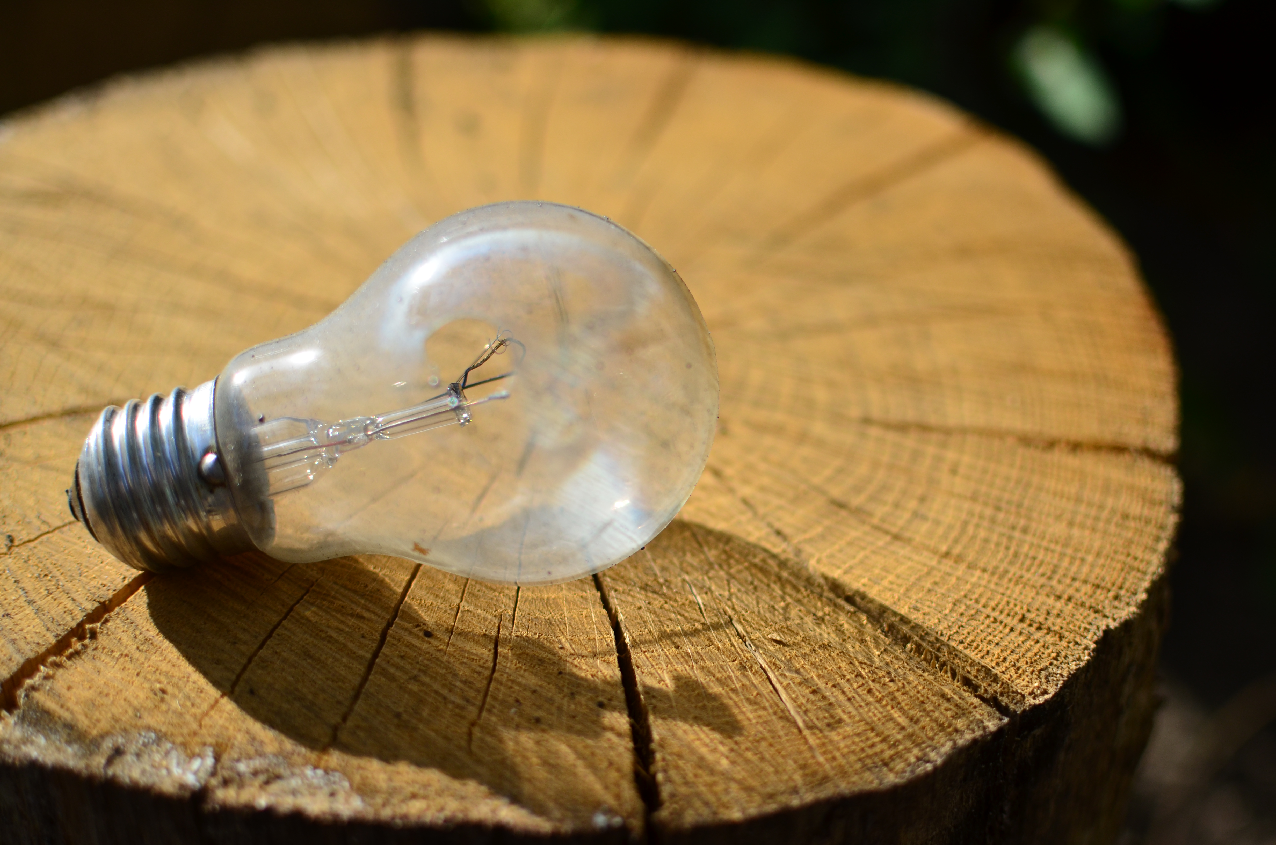 The photo shows the decompression process incandescent lamps. Image can be used to illustrate articles about the incandescent lamp. A drop of molten metal penetrated the glass flask during welding. The lamp was used for the lighting welding. White smoke is tungsten dioxide which burnt down. He sat inside the lamp. There was a depressurization bulb. Oxygen and air intersected with the heated spiral. Spiral was burned.